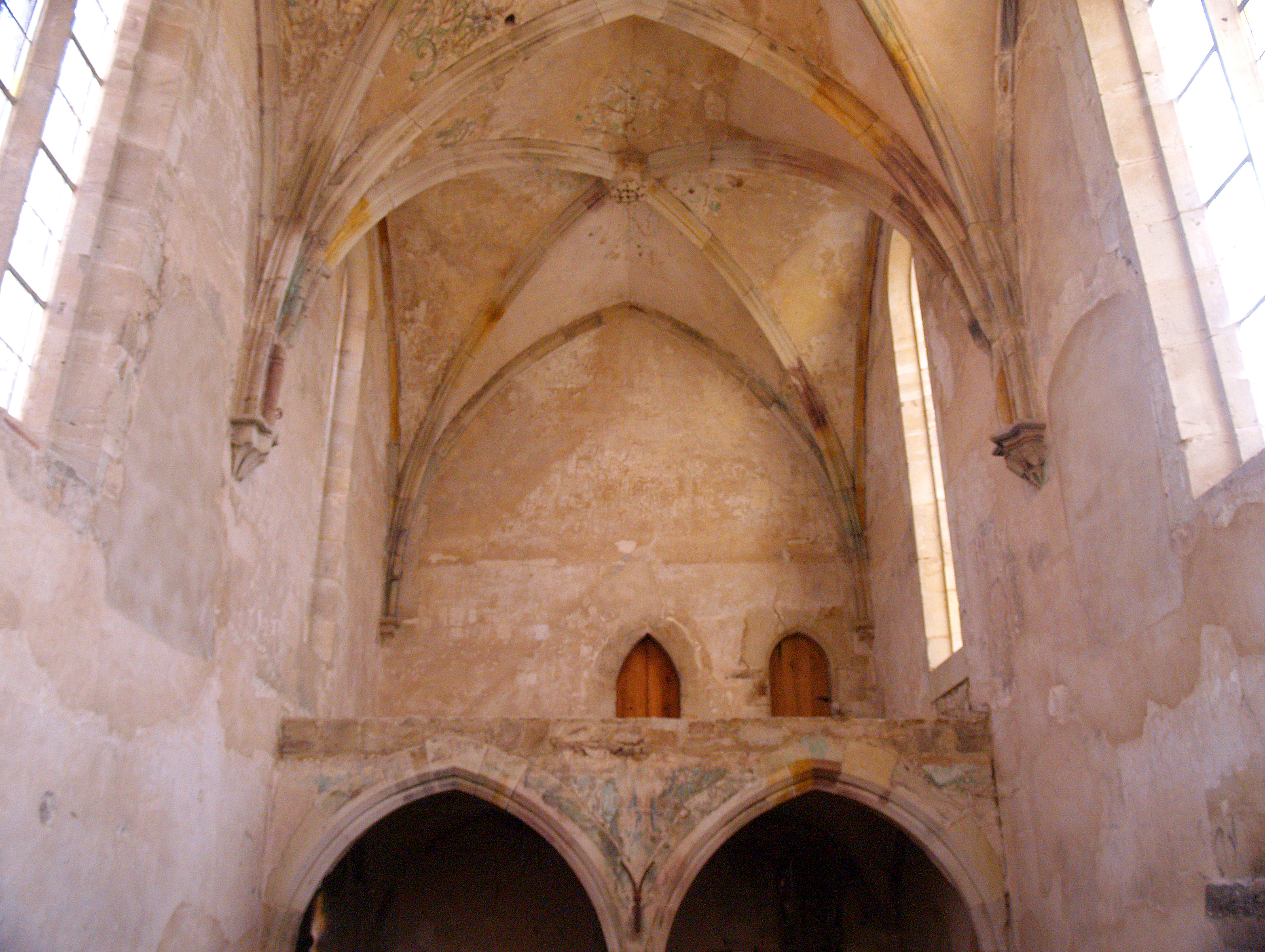 temple church mücheln (germany/ saxony-anhalt), interior view of the back